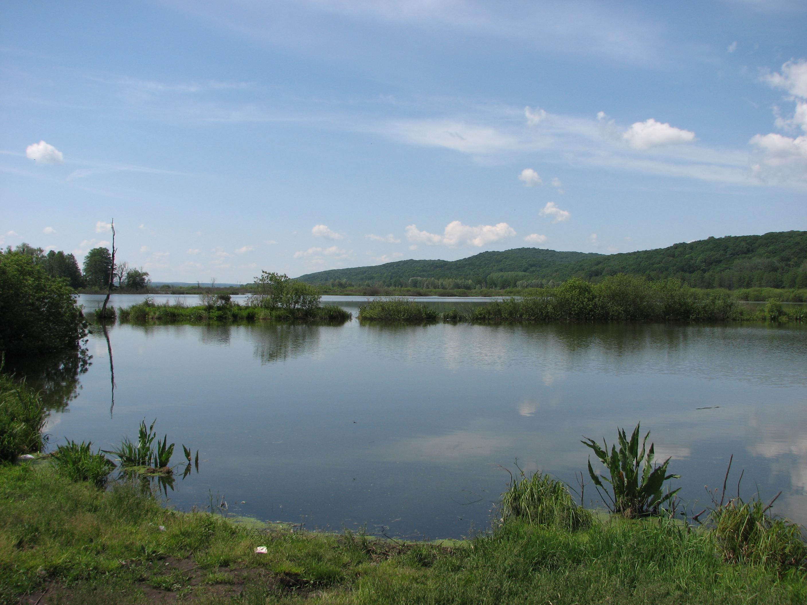 A quarry at the Irdyn bog (Cherkasy region, Ukraine).